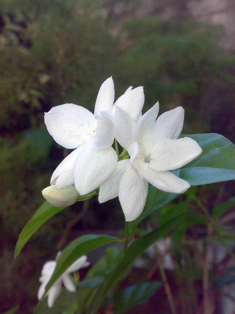 The Sampaguita, or Philippine Jasmin, a fragrant flower, popularly used as garlands. Scientific name is "jasminum sambac."